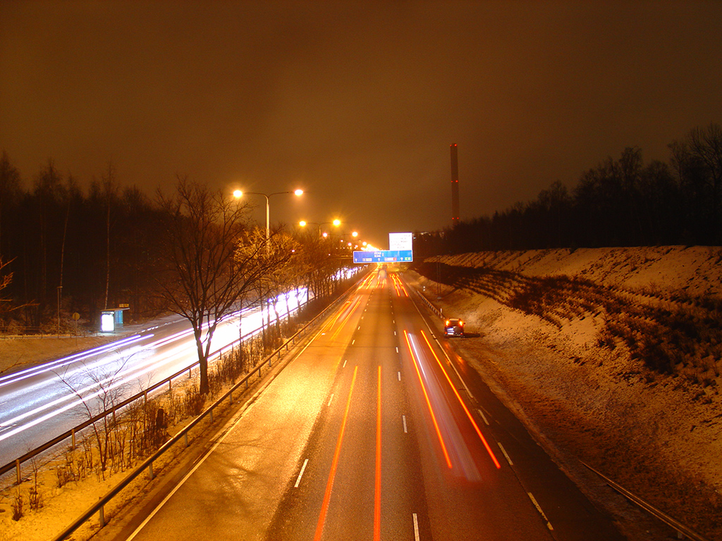 A view from a bridge crossing the Ring road I (regional road 101) in Lassila, Helsinki, Finland. The picture has been taken from Klaneettipolku bridge, looking east. One car had stopped on the side. The weather was quite awful. It was raining/snowing and there was a cold wind. Apart from shrinking, the image has not been post-processed.